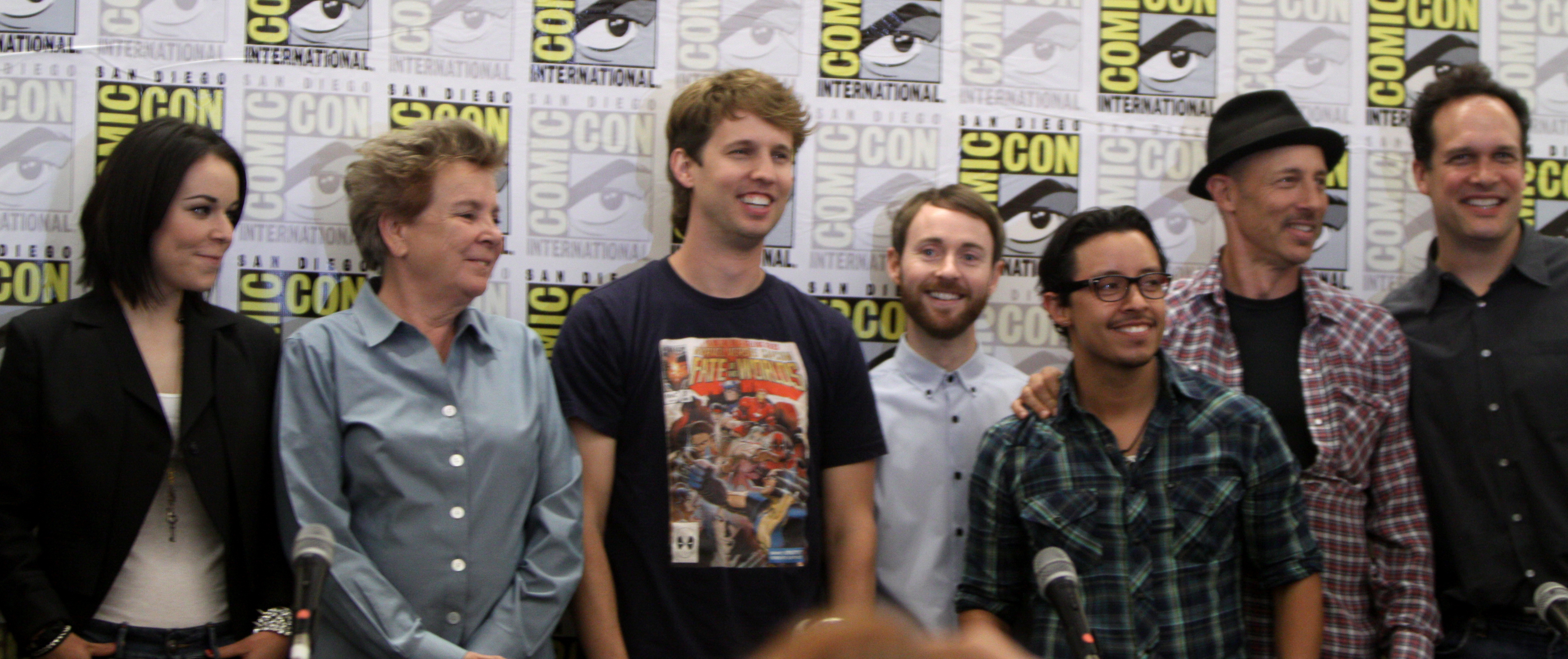 The Napoleon Dynamite cast at the 2011 Comic Con in San Diego